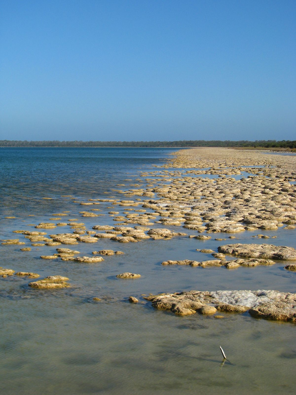 Stromatolites growing her in Yalgorup national park in Australia (there are also other stromatolithes in Shark Bay and in Western Australia. Stromatolites are "attached, lithified "sedimentary" growth structures, accretionary away from a point or limited surface of initiation."